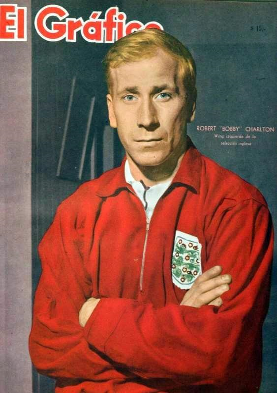 English footballer Bobby Charlton posing for El Gráfico